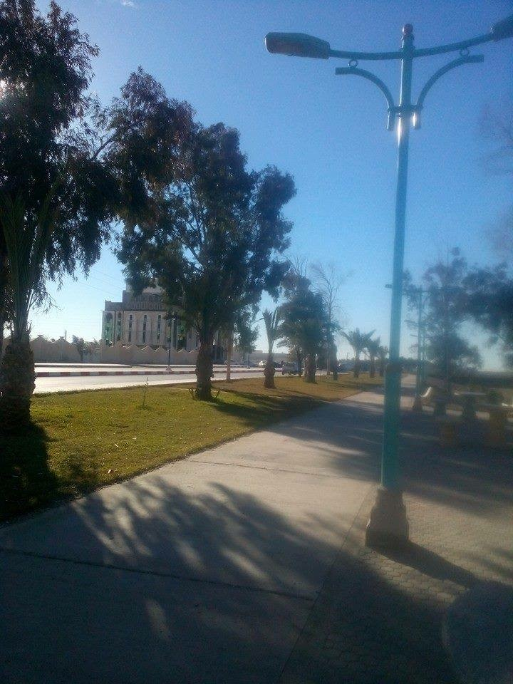 Biskra street